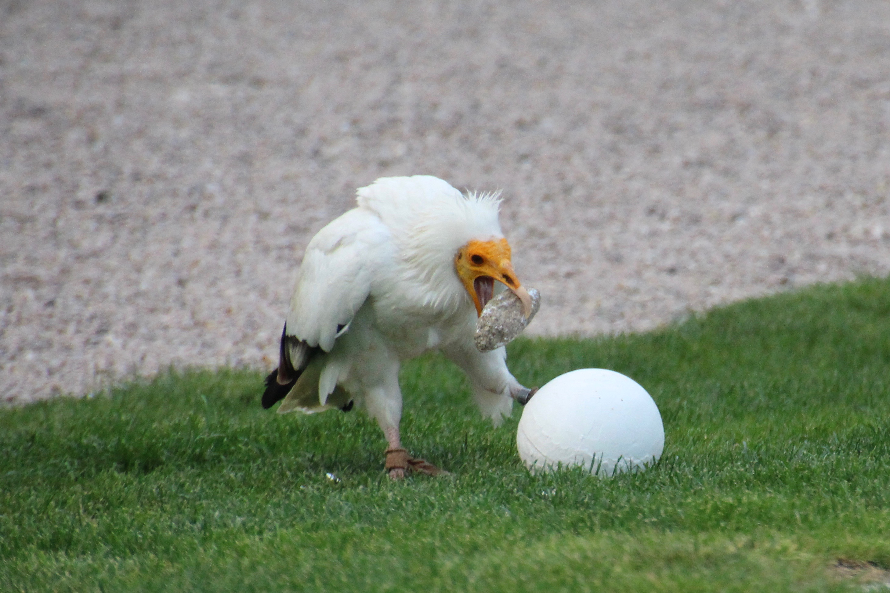 Captive Egyptian vulture performing a demo of opening an egg (plaster) with a rock, at the park "Volerie des Aigles", Kintzheim, France.